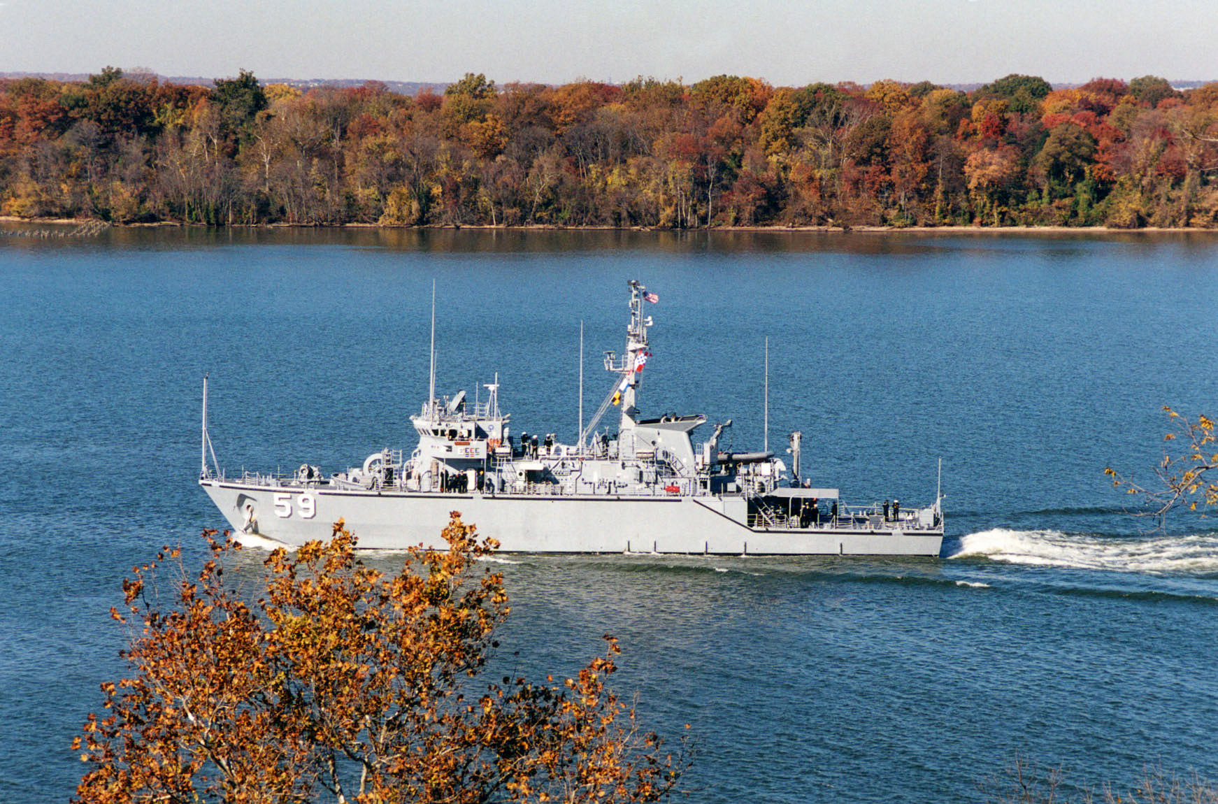 Port side view of the US Navy Osprey-class (minehunter coastal), USS Falcon (MHC-59), underway on the Potomac River.